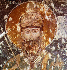 Stefan Prvovenčani, begining of the XIV century (1307—1309), fresco from Bogorodica Ljeviška church in Prizren, Serbia